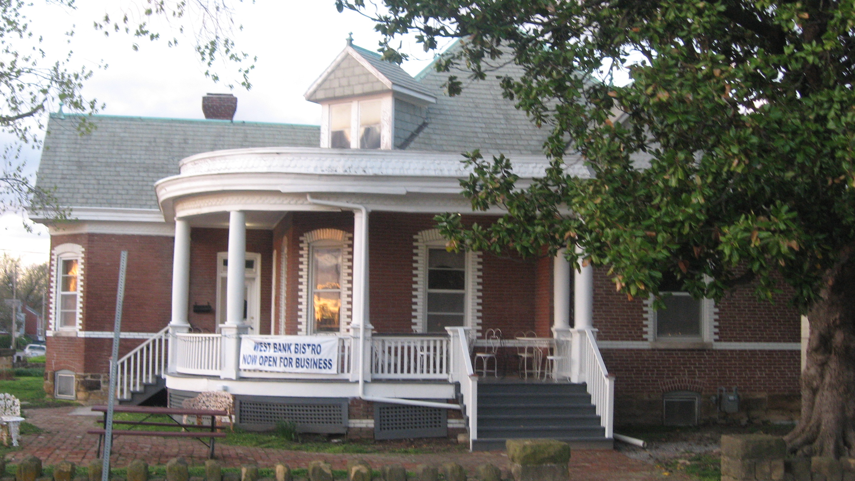 Front of the Huhn-Harrison House, located at 340 S. Lorimier Street in Cape Girardeau, Missouri, United States. Built in 1906, it is listed on the National Register of Historic Places, and it is part of a Register-listed historic district, the Courthouse-Seminary Neighborhood Historic District.